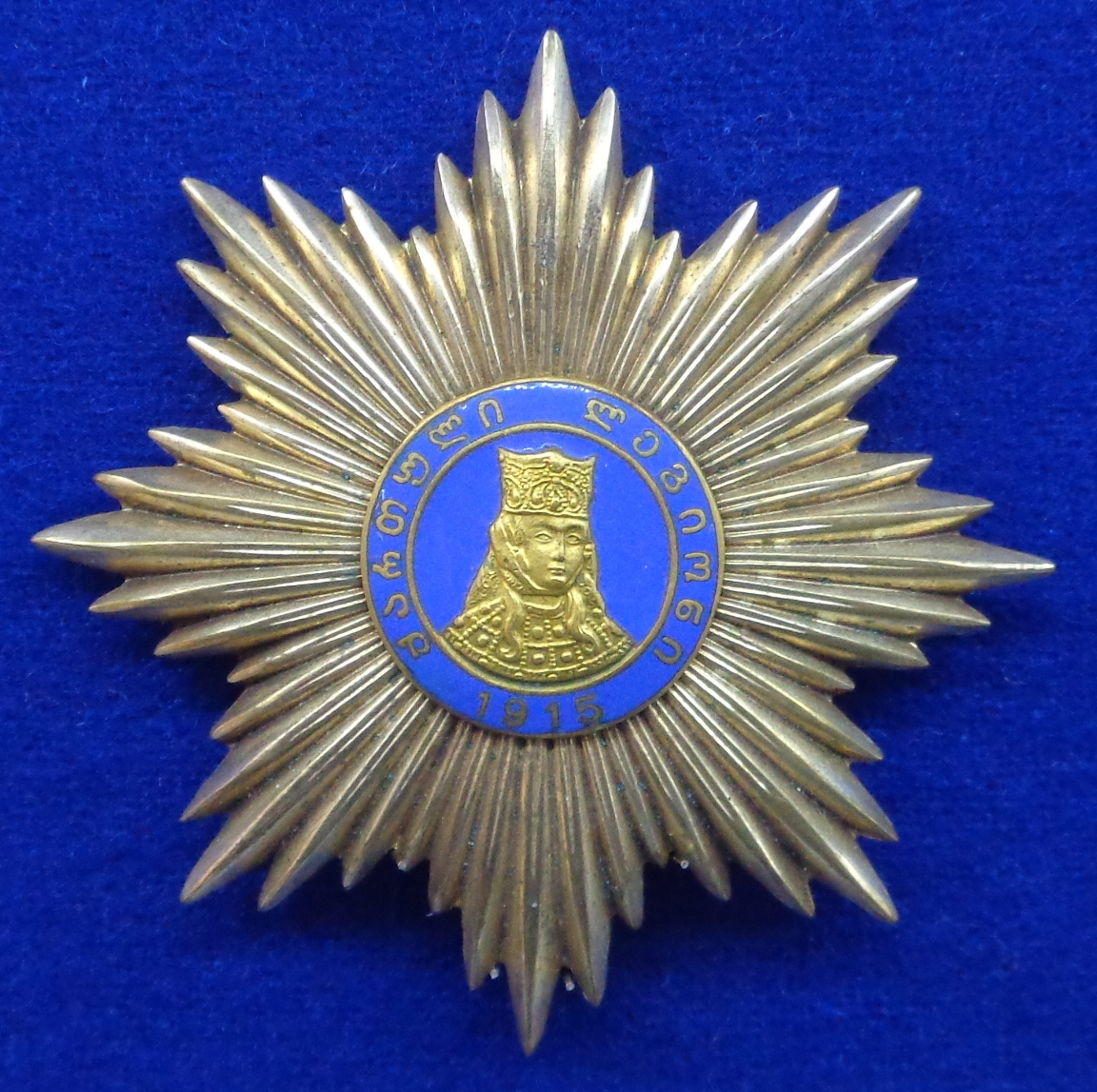 Order of Queen Tamara, star, 1918. Georgia. The exhibition of the Tallinn Museum of Orders of Knighthood, Estonia.